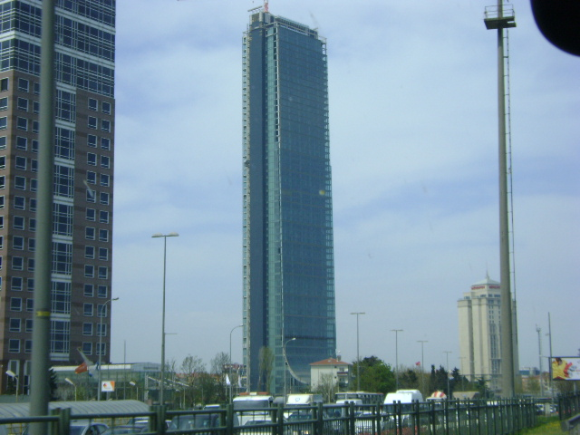 Sapphire of İstanbul